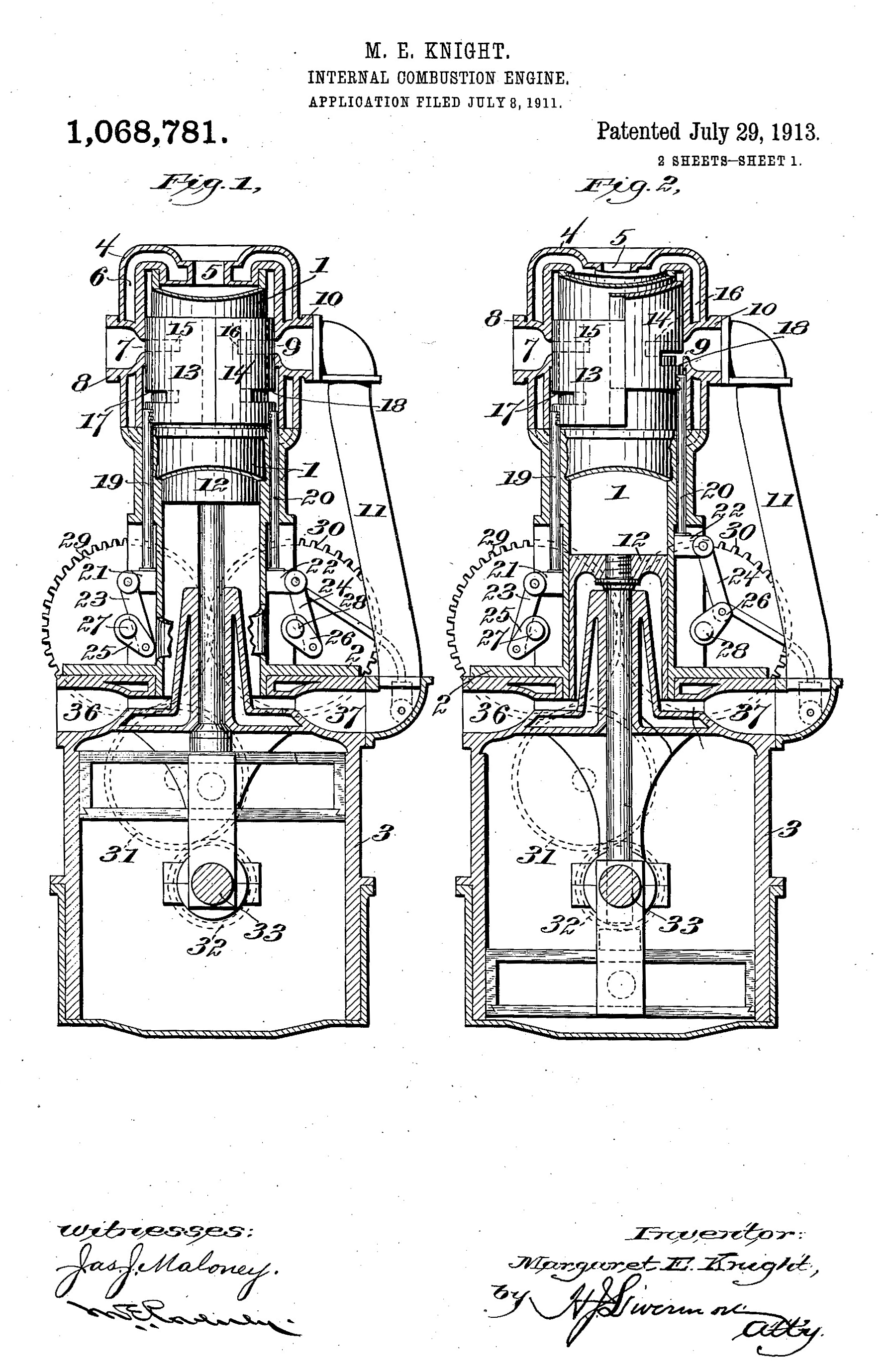 Patent held by Margareth E. Knight